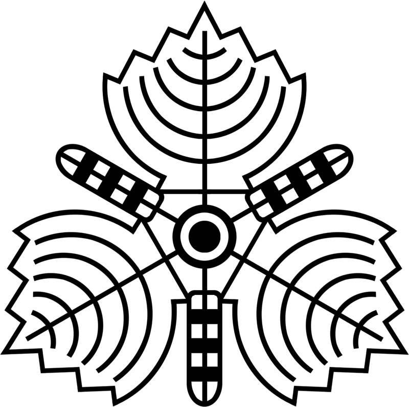 Emblem of Karafuto Prefecture (the present south Sakhalin), used from 1911 till 1945. Three birch (樺 kaba) leaves and fruits form the character 太 (futo), making the rebus of 樺太 (Karafuto).